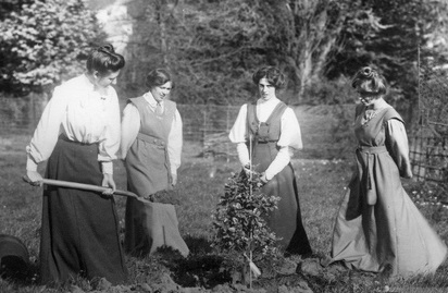 Mary Blathwayt planting tree with Vera Holmes, Jessie and Annie Kenney 1909. This picture was taken by Colonel Linley Blathwayt and was stored on glass negatives. The Blathwayt's home of Eagle House way the home of Linley, Emily and Mary Blathwayt who all actively supported the suffragette cause. Nearly all the prominient UK suffragettes stayed with them and these photos and dozens of trees were planted to commemorate their visits. Col. Linley Blathwayt took these pictures between 1908 and 1912. He died in 1919. The pictures are made available in larger formats by .